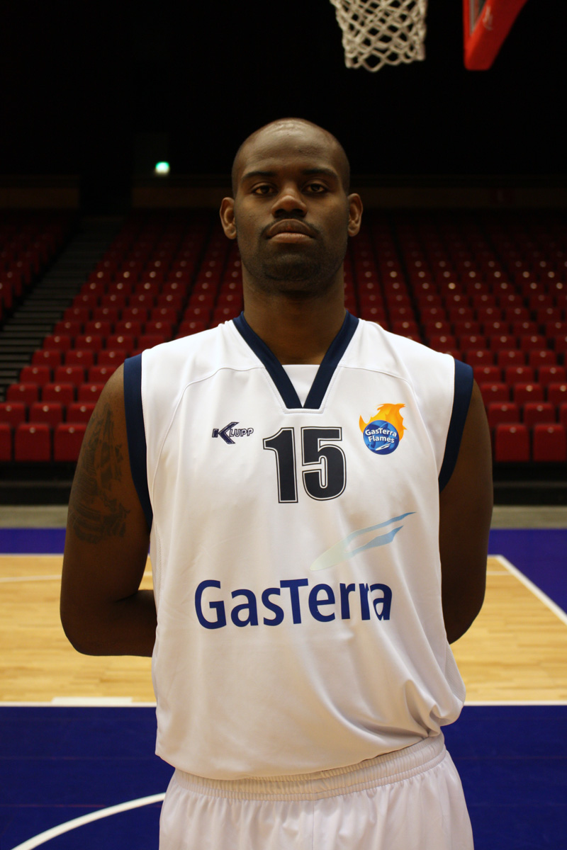 Bryan Davis in the GasTerra Flames uniform for the 2011-2012 season